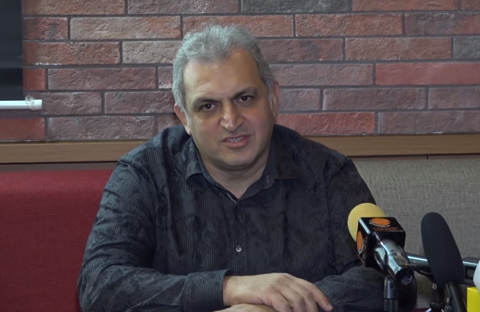 Arthur Soghomonyan